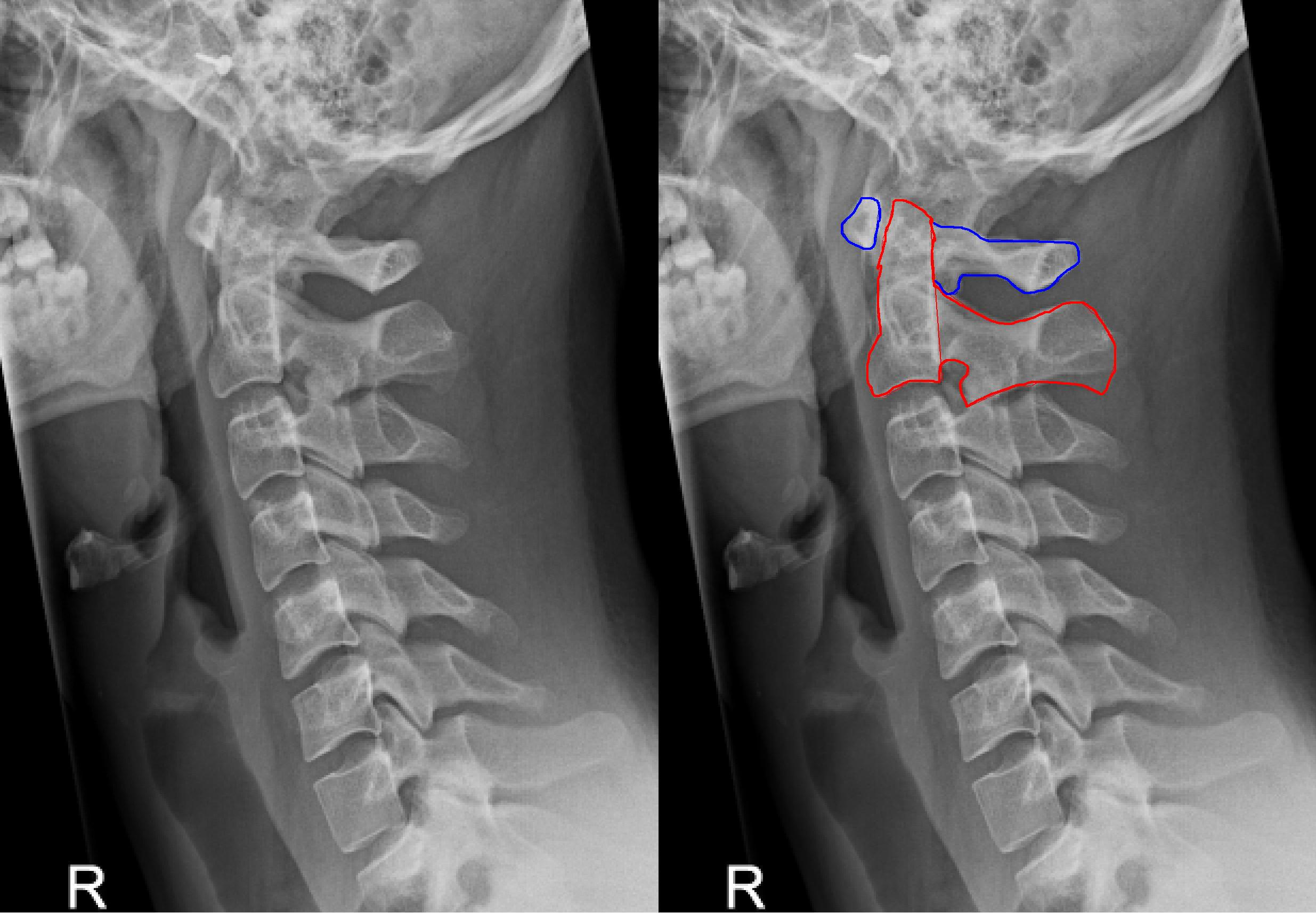 X-Ray of the cervical spine in lateral direction, showing the relationship between C1 and C2. Left without, right with annotation. Blue outline is C1, red outline is C2.